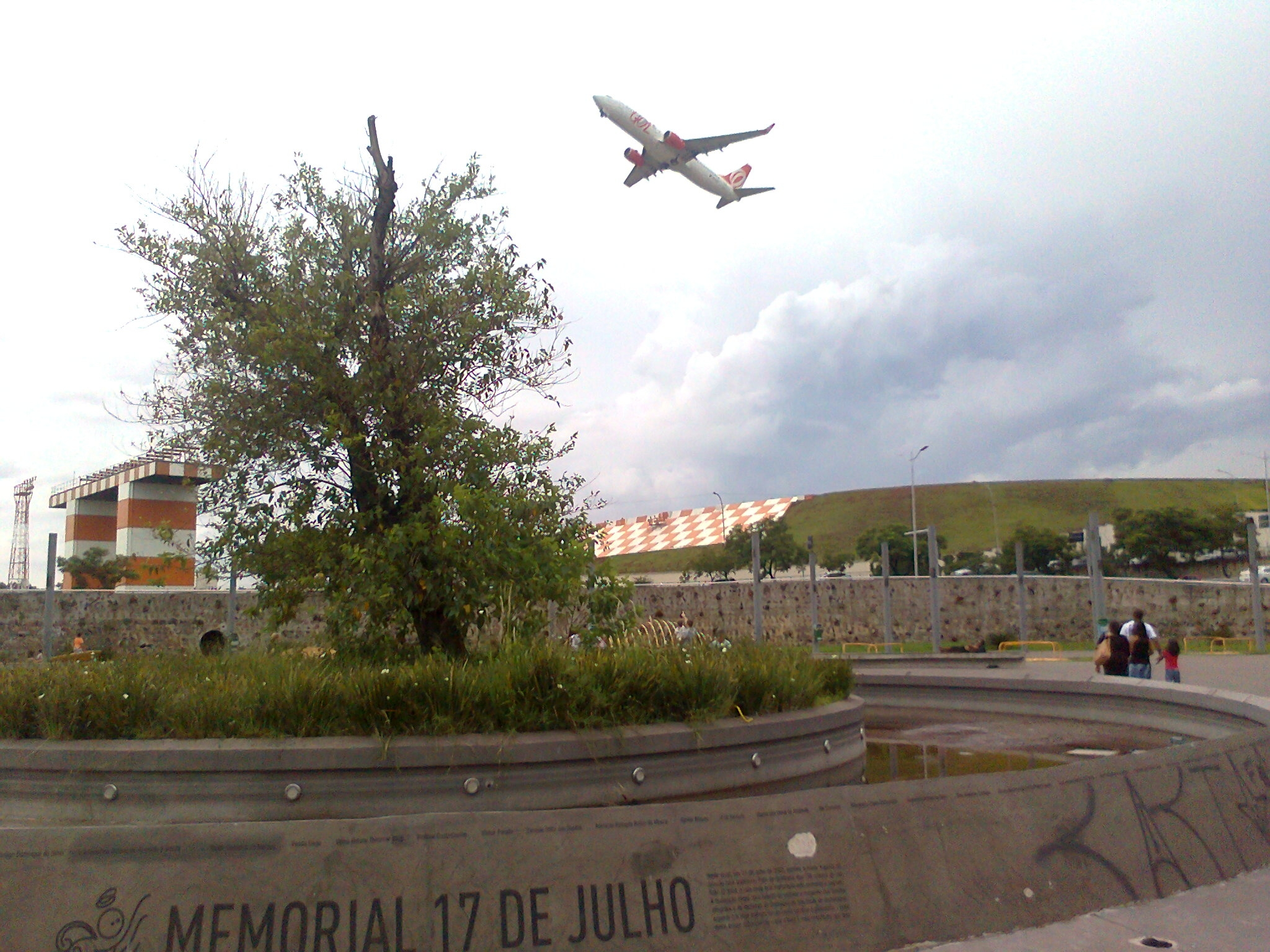 Memorial "17 de Julho", in tribute to victims of TAM Flight 3054. In the foreground, the mulberry tree that resisted the accident.